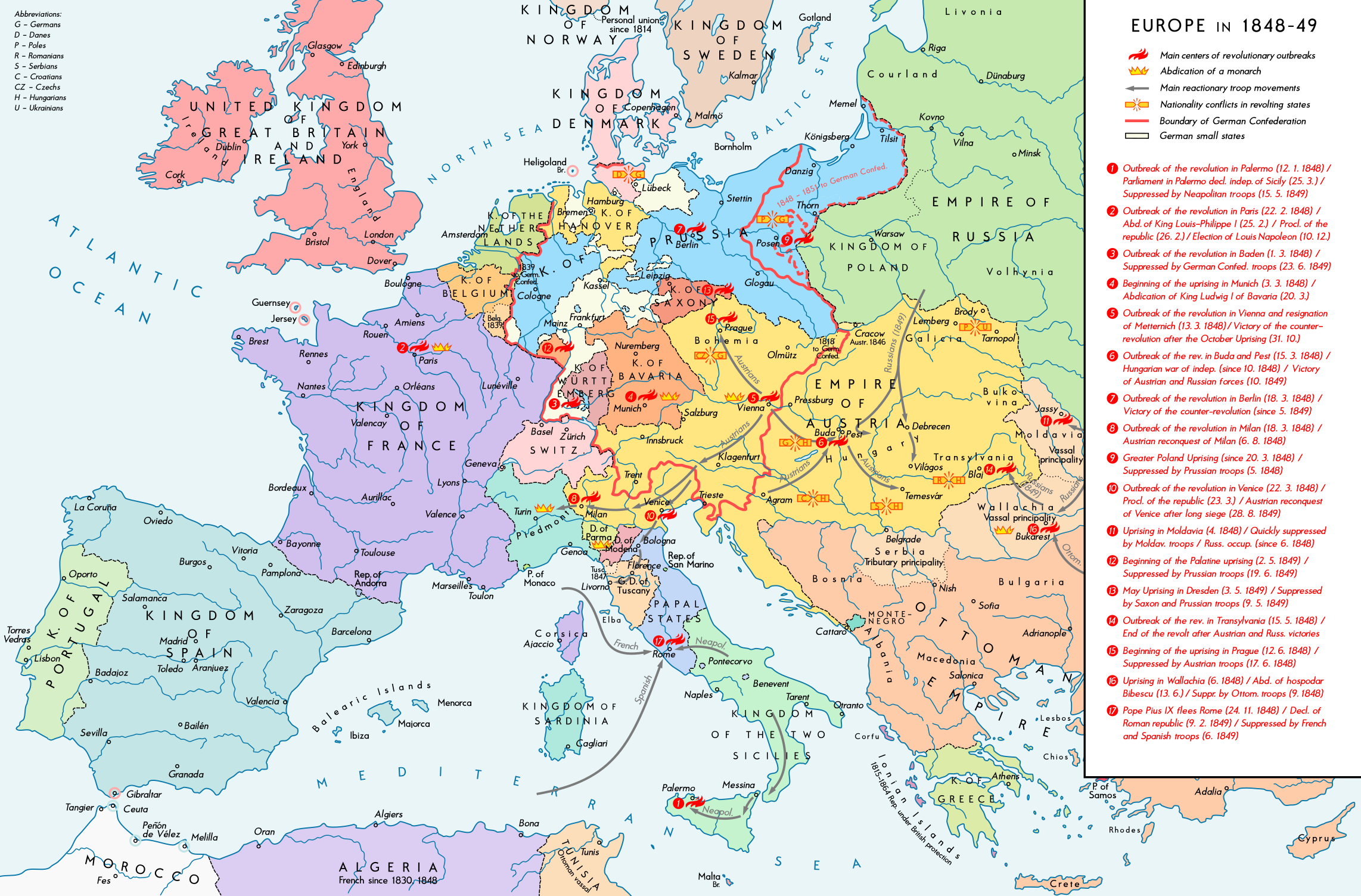 Europe 1848-49. Historical map with main revolutionary centres, important reactionary troop movements, states with abdications and national conflicts. Please don't alter the map, when you think there something not written or depicted correctly. Leave a message at the talk page of the file. After a verificiation and a possible discussion, i will upload a new map version with all new changes. This prevents an unnecessary waste of disc space and ensures a good result, aesthetically and contentwise. - The author.